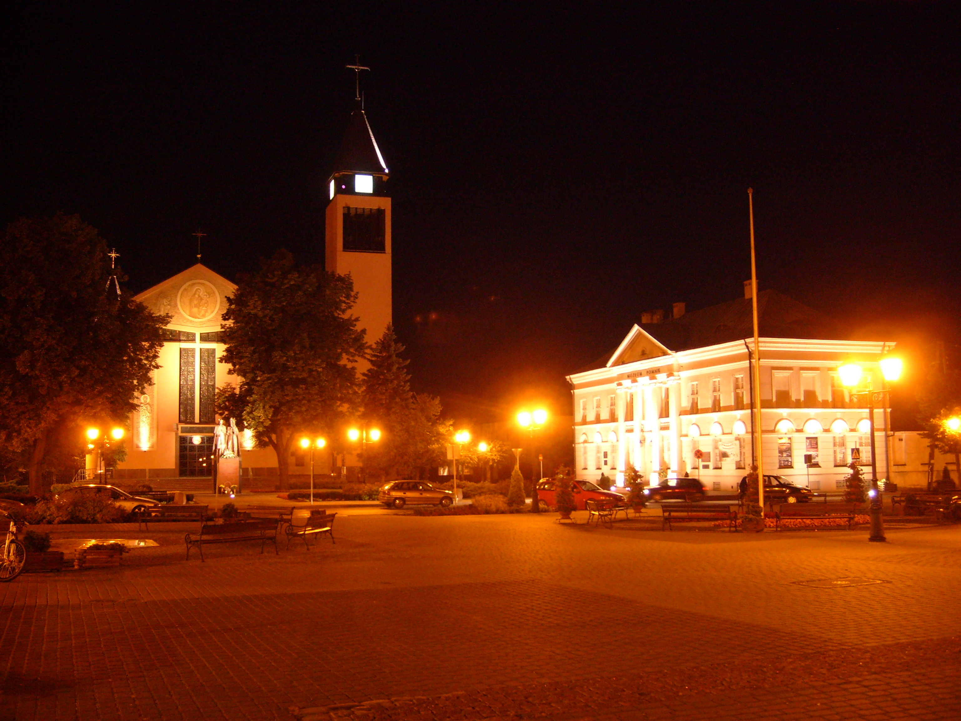 Sochaczew - Kościuszki Square - parish church and Town Hall